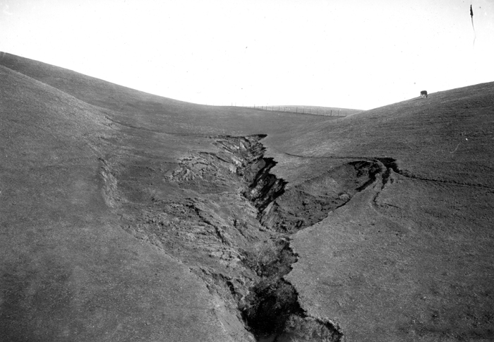 Gully developing headward by sapping and modified by slipping. Two miles southeast of Mount Tamalpais. A characteristic landslip hollow at right. Compare 2835. Tamalpais quadrangle, Marin County, California. 1906. Digital File:ggk02834 ID. Gilbert, G.K. 2834 Original found at Image uploaded to illustrate article headward erosion.